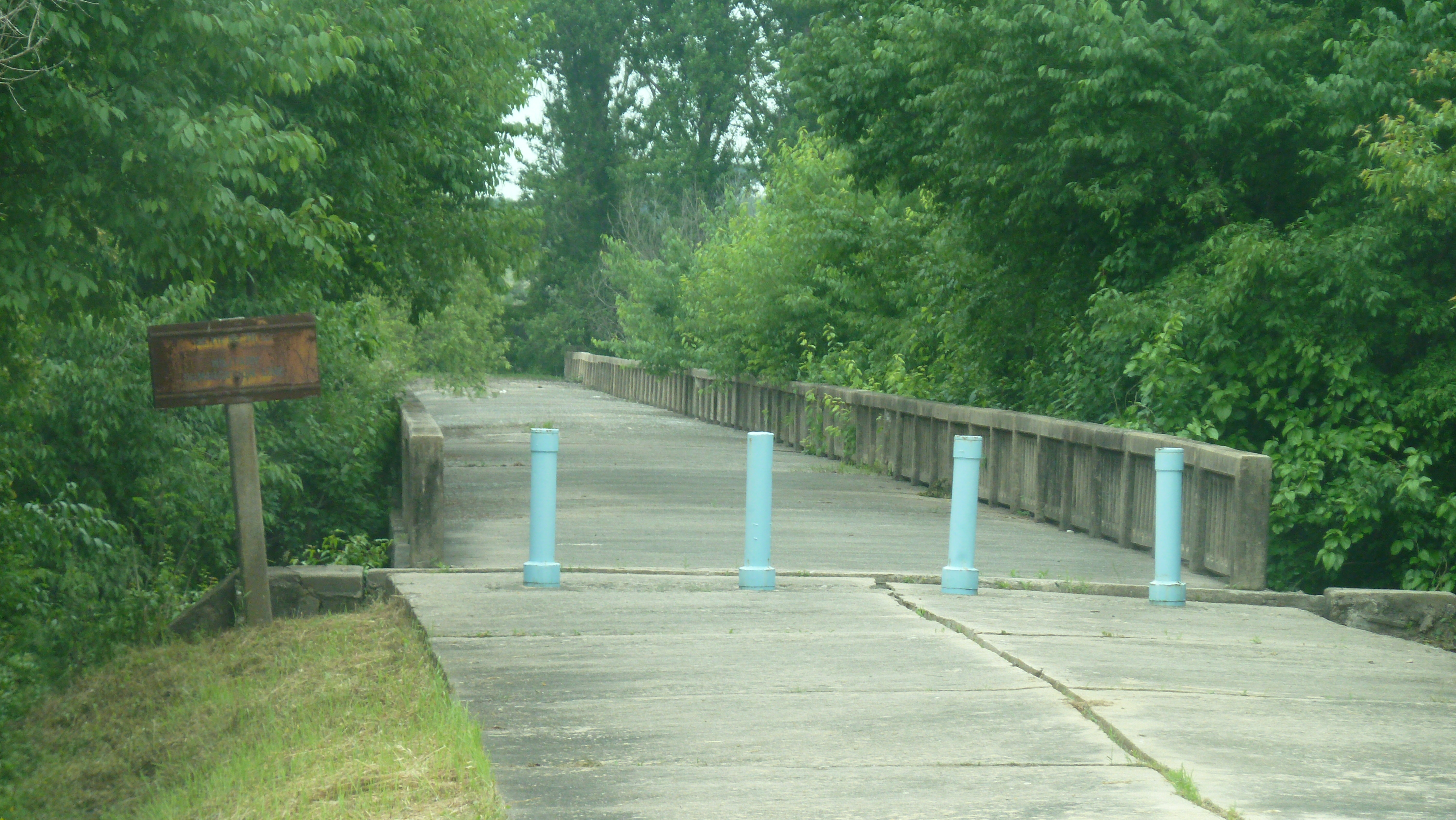 Bridge of no return